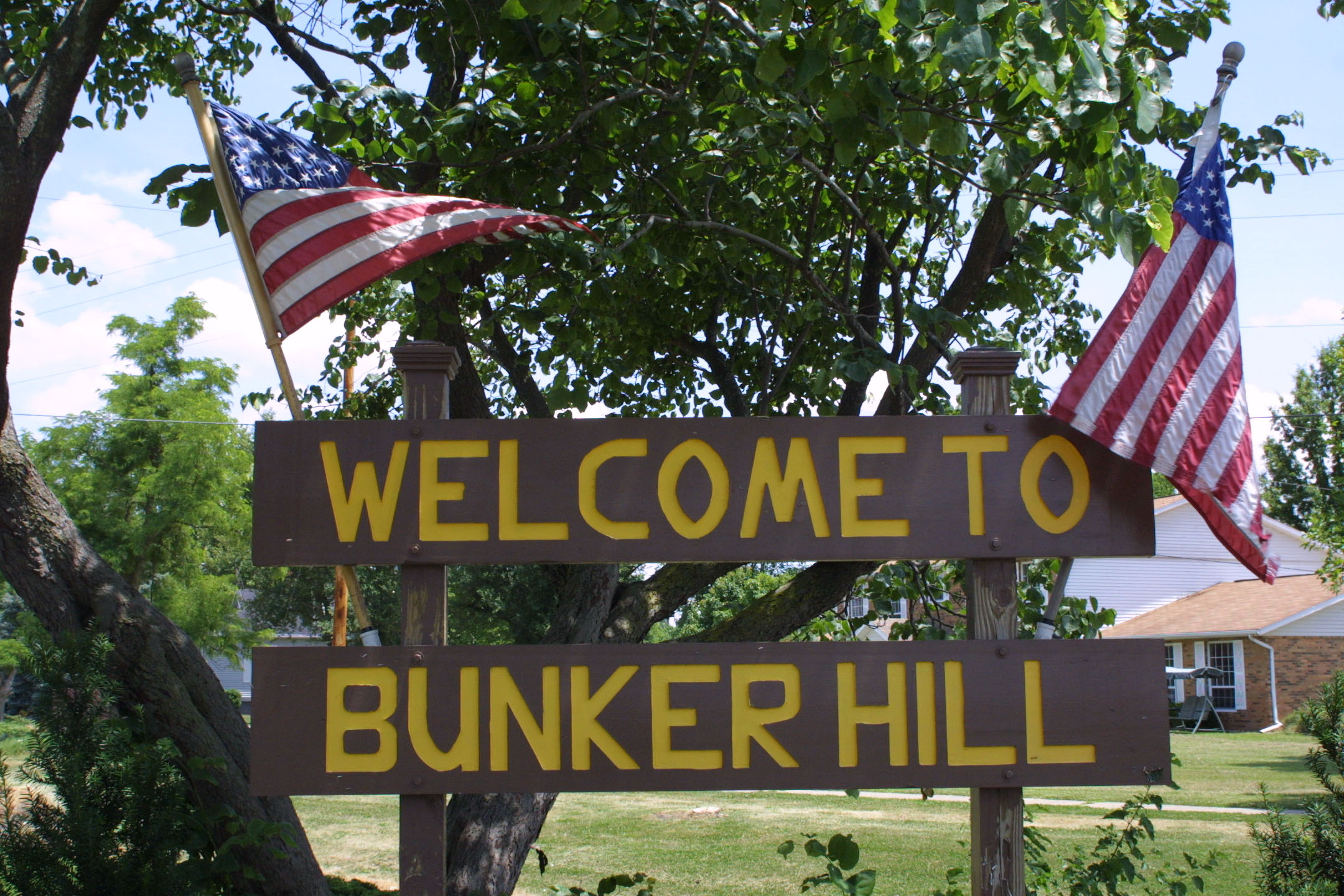 Bunker Hill Welcome Sign entering the town from the west on the Bunker Hill-Brighton Road.